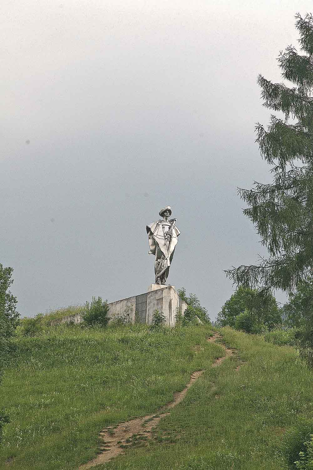 Terchová, Juraj Jánošík's statute by Ján Kulich from 1988, district Žilina, Slovakia